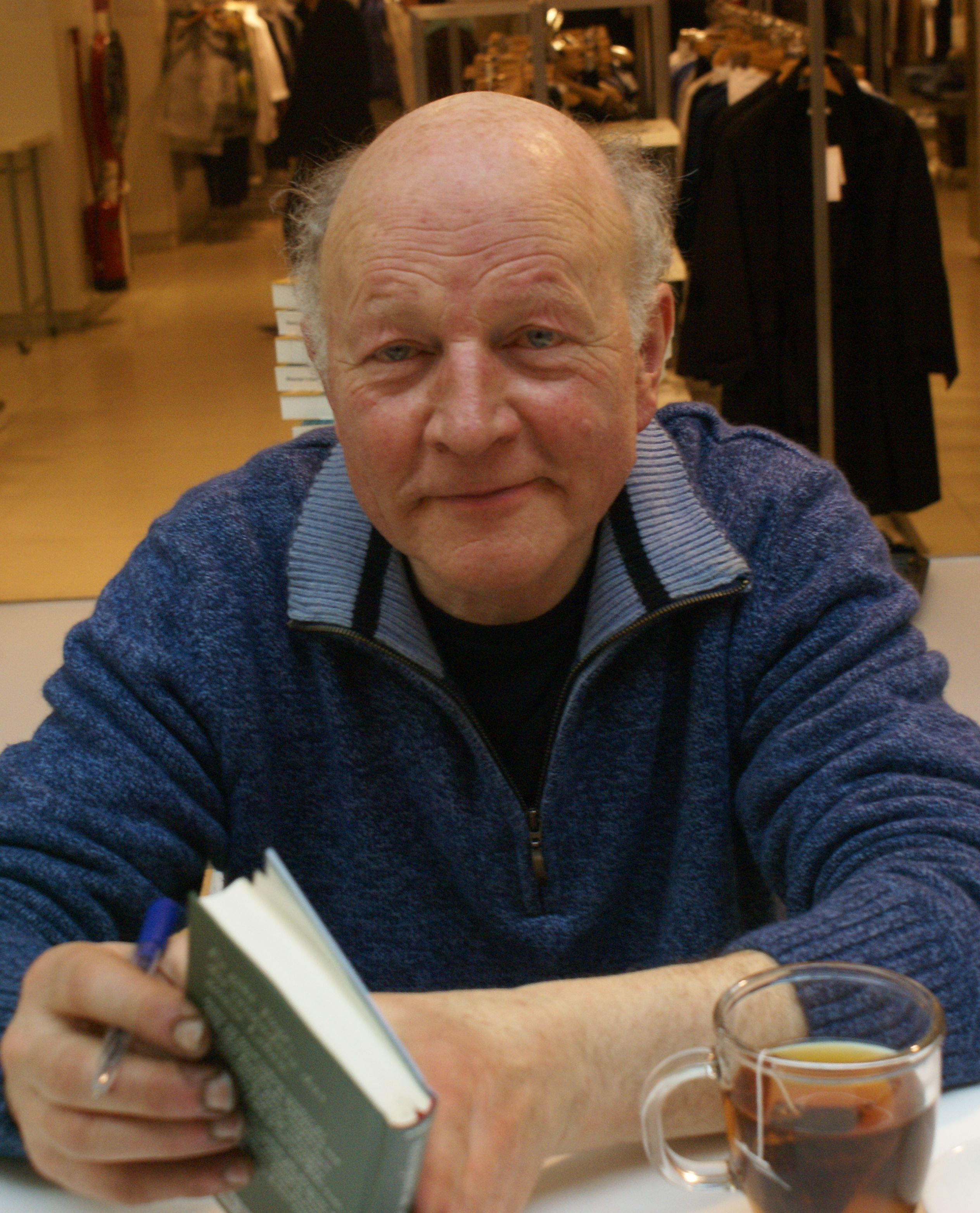 Dutch author Maarten 't Hart at a book signing in the department store "De Bijenkorf" in Amsterdam in March 2011